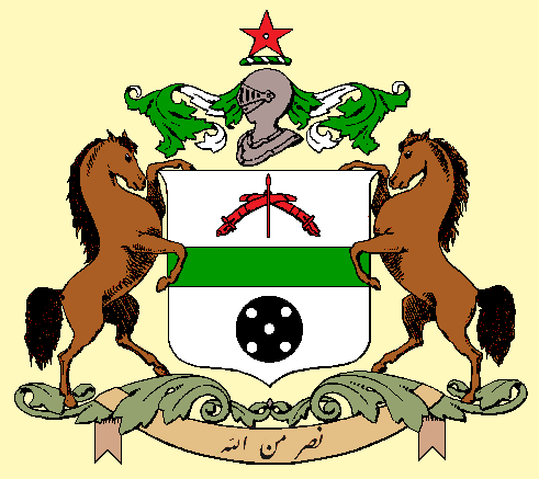 Tonk State coat of arms; motto: Nasru Minullah This work is in the public domain in India because its term of copyright has expired. The Indian Copyright Act applies in India, to works first published in India. According to The Indian Copyright Act, 1957 (Chapter V Section 25), Anonymous works, photographs, cinematographic works, sound recordings, government works, and works of corporate authorship or of international organizations enter the public domain 60 years after the date on which they were first published, counted from the beginning of the following calendar year (ie. as of 2016, works published prior to 1 January 1956 are considered public domain). Posthumous works (other than those above) enter the public domain after 60 years from publication date. Any other kind of work enters the public domain 60 years after the author's death. Text of laws, judicial opinions, and other government reports are free from copyright. Photographs created before 1958 are in the public domain 50 years after creation, as per the Copyright Act 1911. This file may not be in the public domain outside India. The creator and year of publication are essential information and must be provided. See Wikipedia:Public domain and Wikipedia:Copyrights for more details. This image shows a flag, a coat of arms, a seal or some other official insignia. The use of such symbols is restricted in many countries. These restrictions are independent of the copyright status.